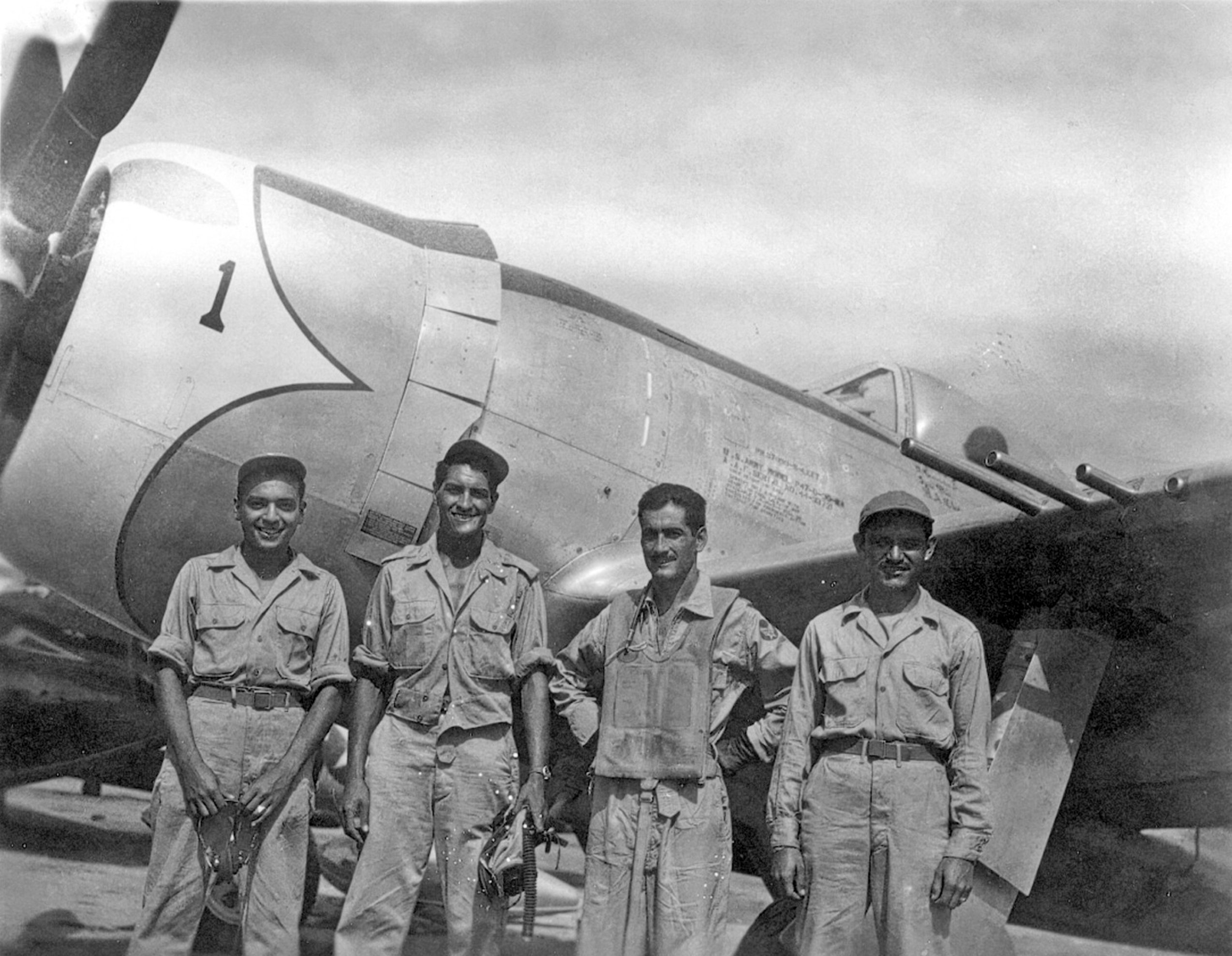 Mexican air force Capt. Radames Gaxiola Andrade stands in front of his P-47D with his maintenance team after he returned from a combat mission. Captain Andrade was assigned to the Mexican air force's Escuadron 201. Members of the Escuadron 201 fought alongside U.S. forces during World War II.